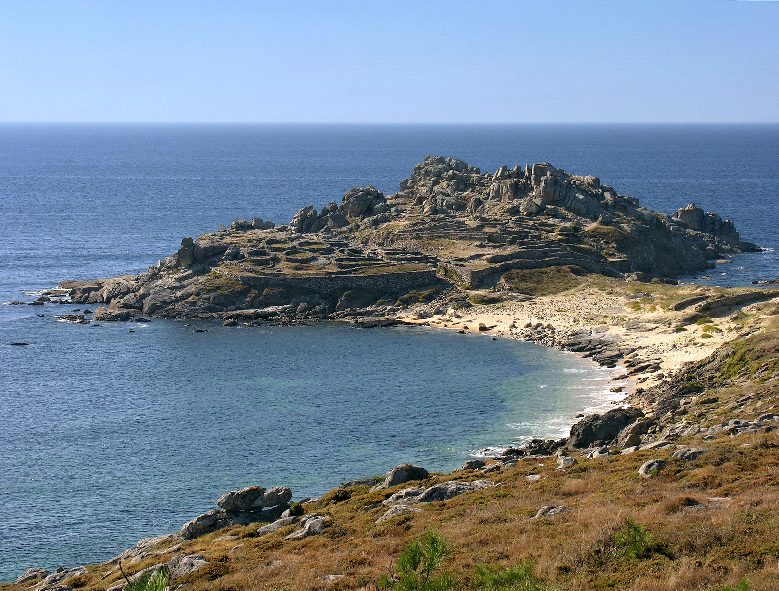 Castro de Baroña. Galicia, Spain.